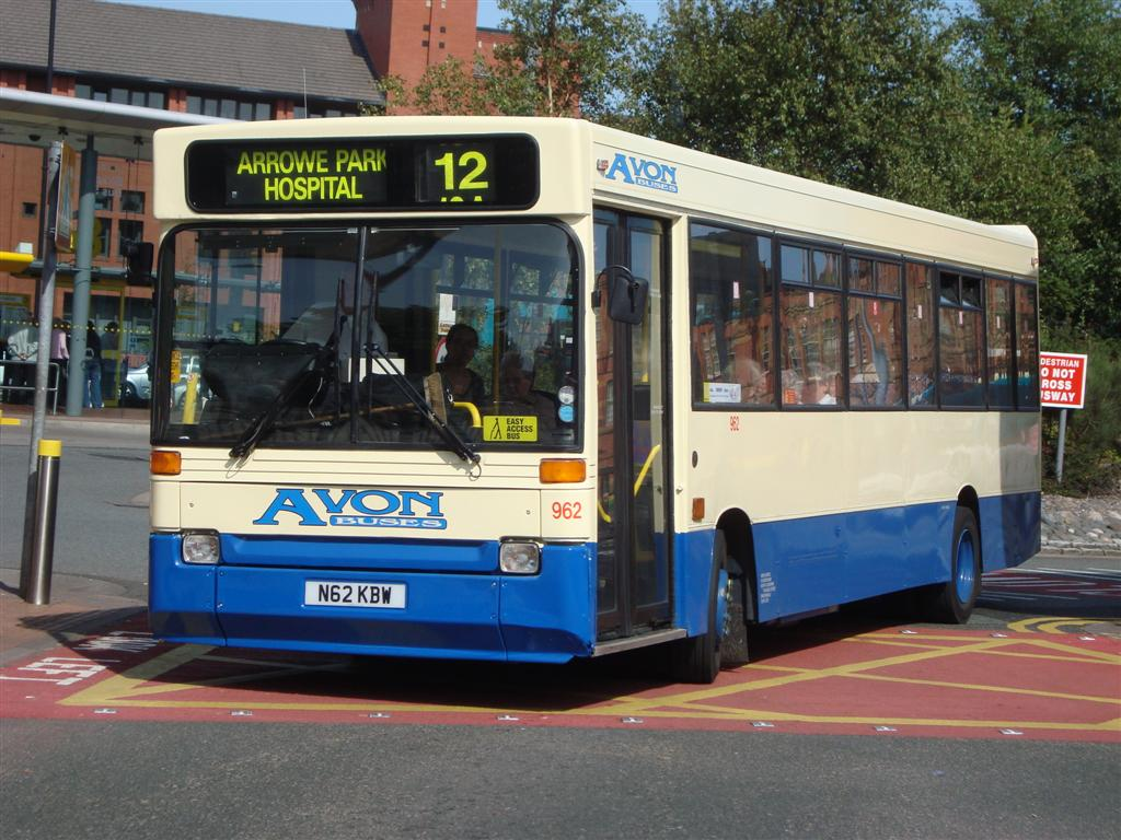 Avon Buses 962 (N62 KBW), a Dennis Dart/Plaxton Pointer, in Birkenhead bus station on route 12.